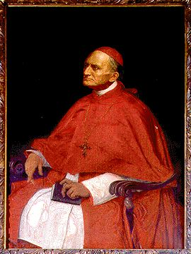 Portrait of Paul Melchers (1813-1895)